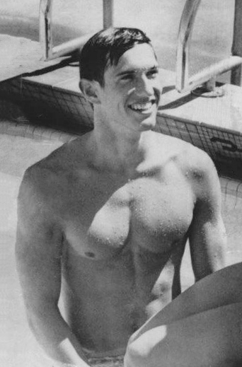 1972 Press Photo Richard Colella of Seattle